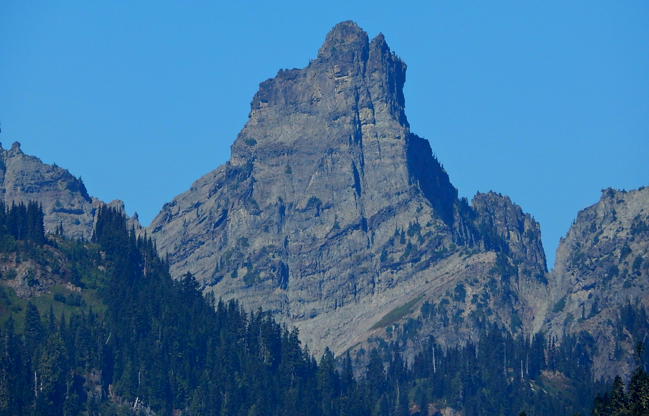 North Cowlitz Chimney seen from State Route 123, Mount Rainier National Park